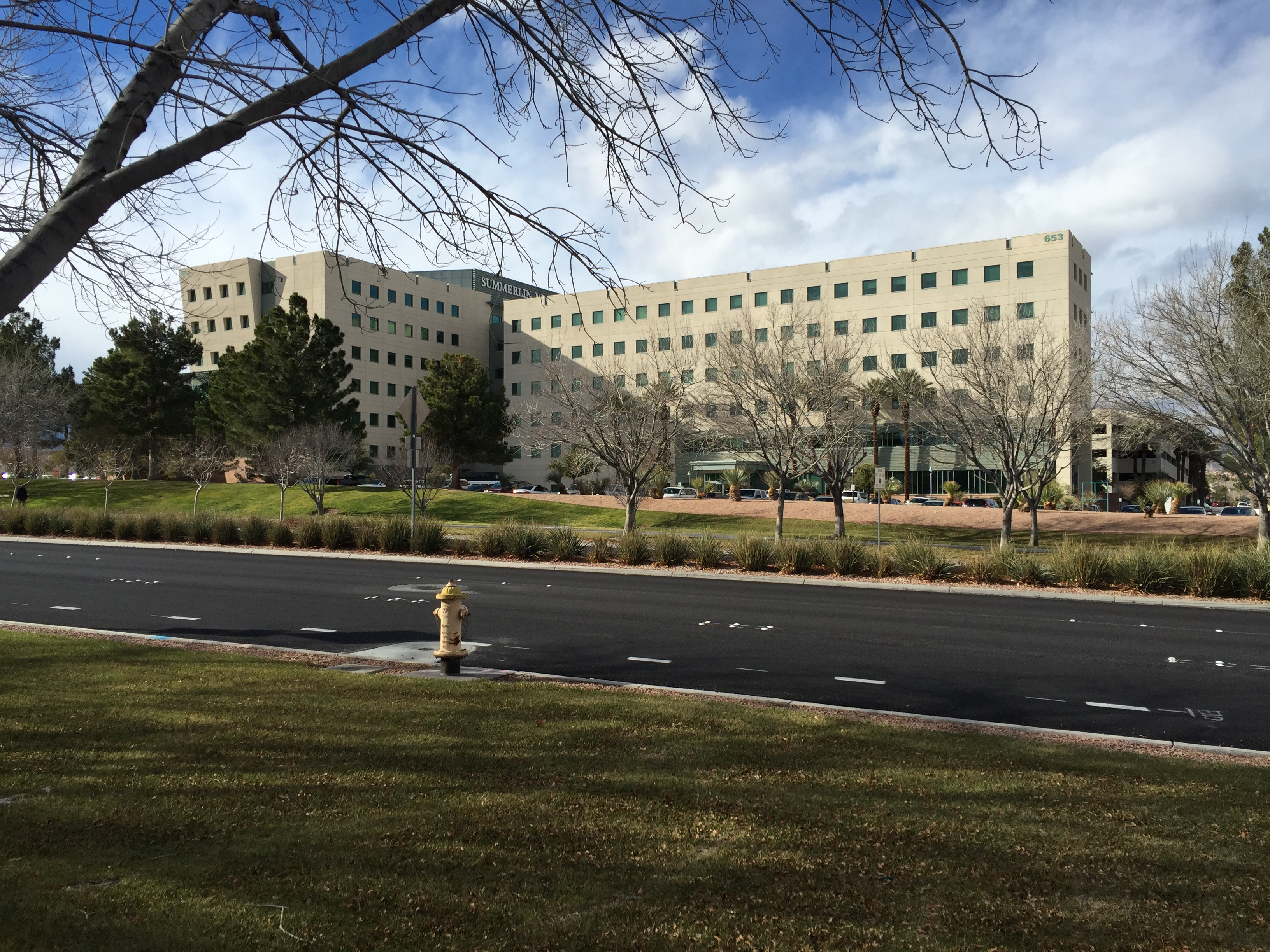 Summerlin Hospital in Las Vegas, Nevada, USA, seen from Town Center Drive.